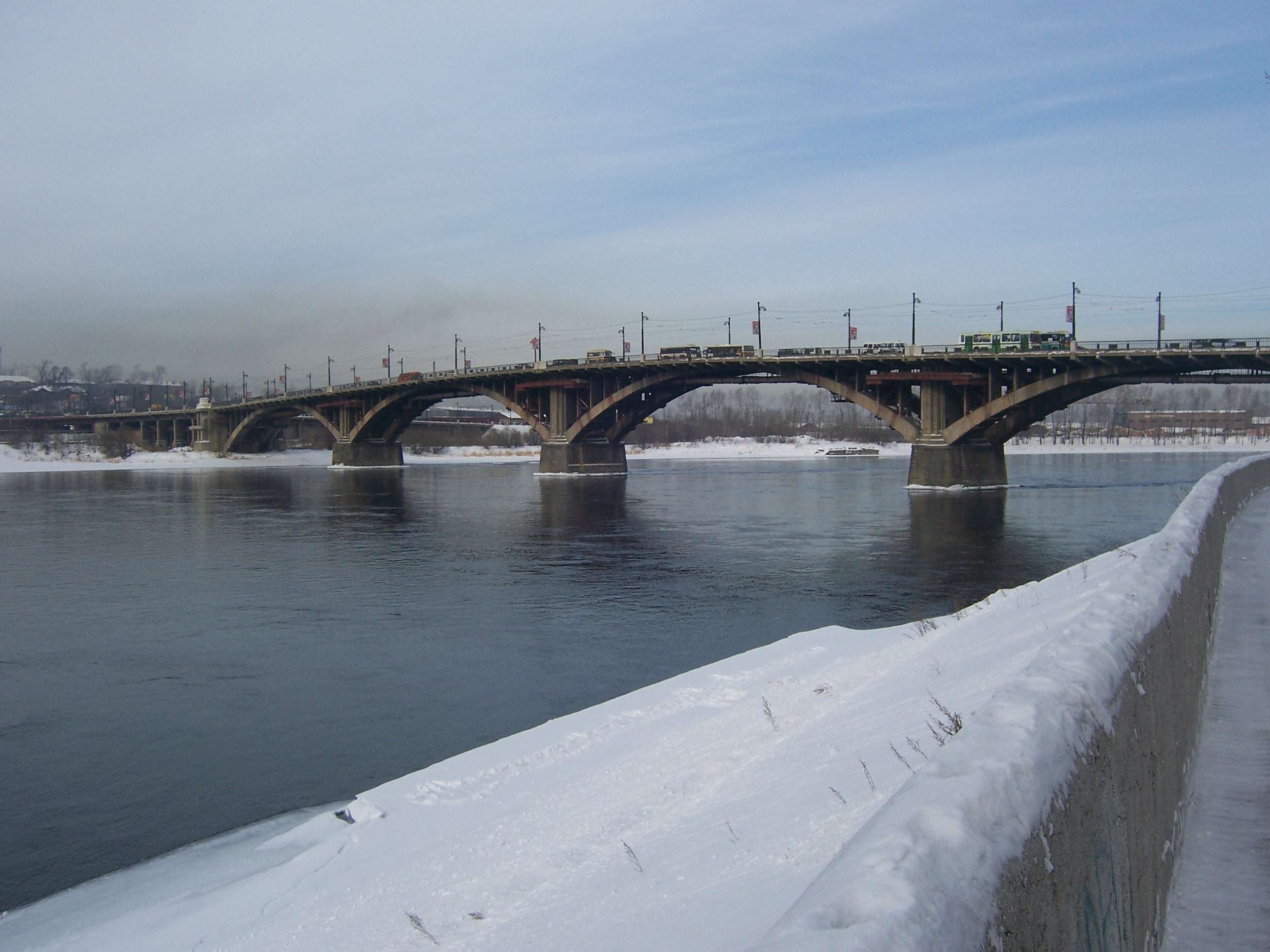 Angara bridge in Irkutsk